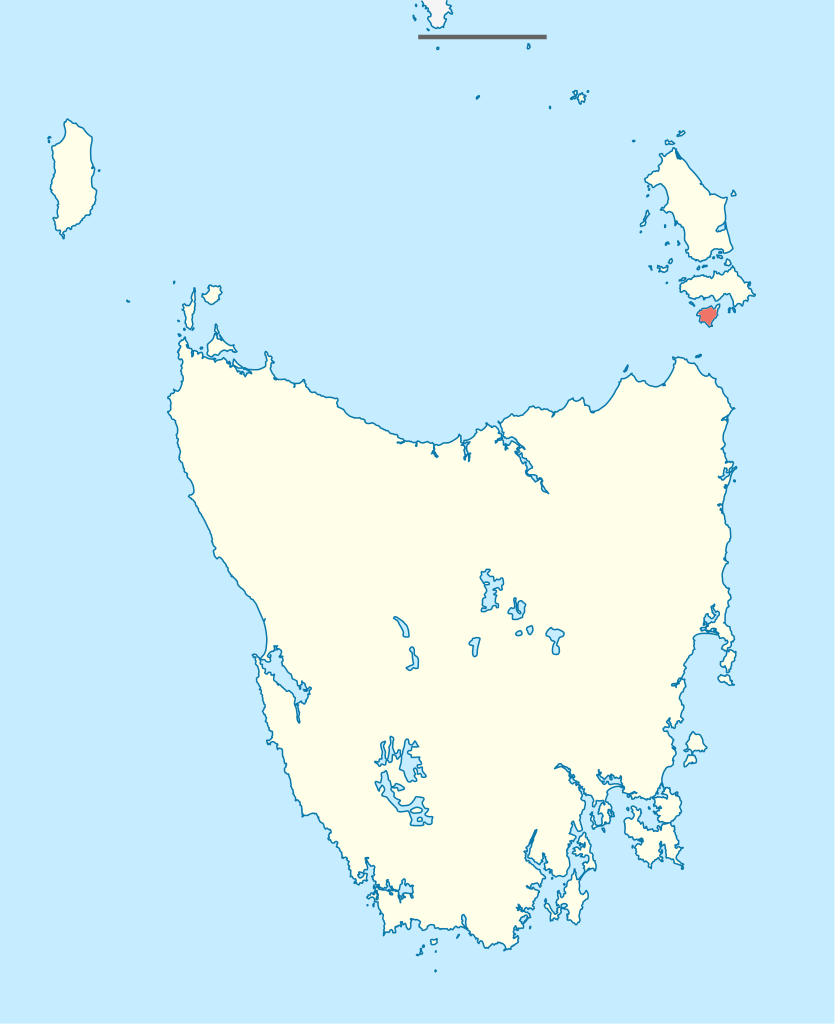 Part of a series of locator maps for Islands of Tasmania Based on File:Australia_Tasmania_location_map_blank.svg